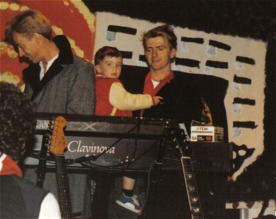 Liam Finn at age 3 with father Neil Finn (and Eddie Rayner at the keyboard) in April 1987 during one of Crowded House's US tours. Photo taken during soundcheck at Wolfgang's nightclub in San Francisco, California.